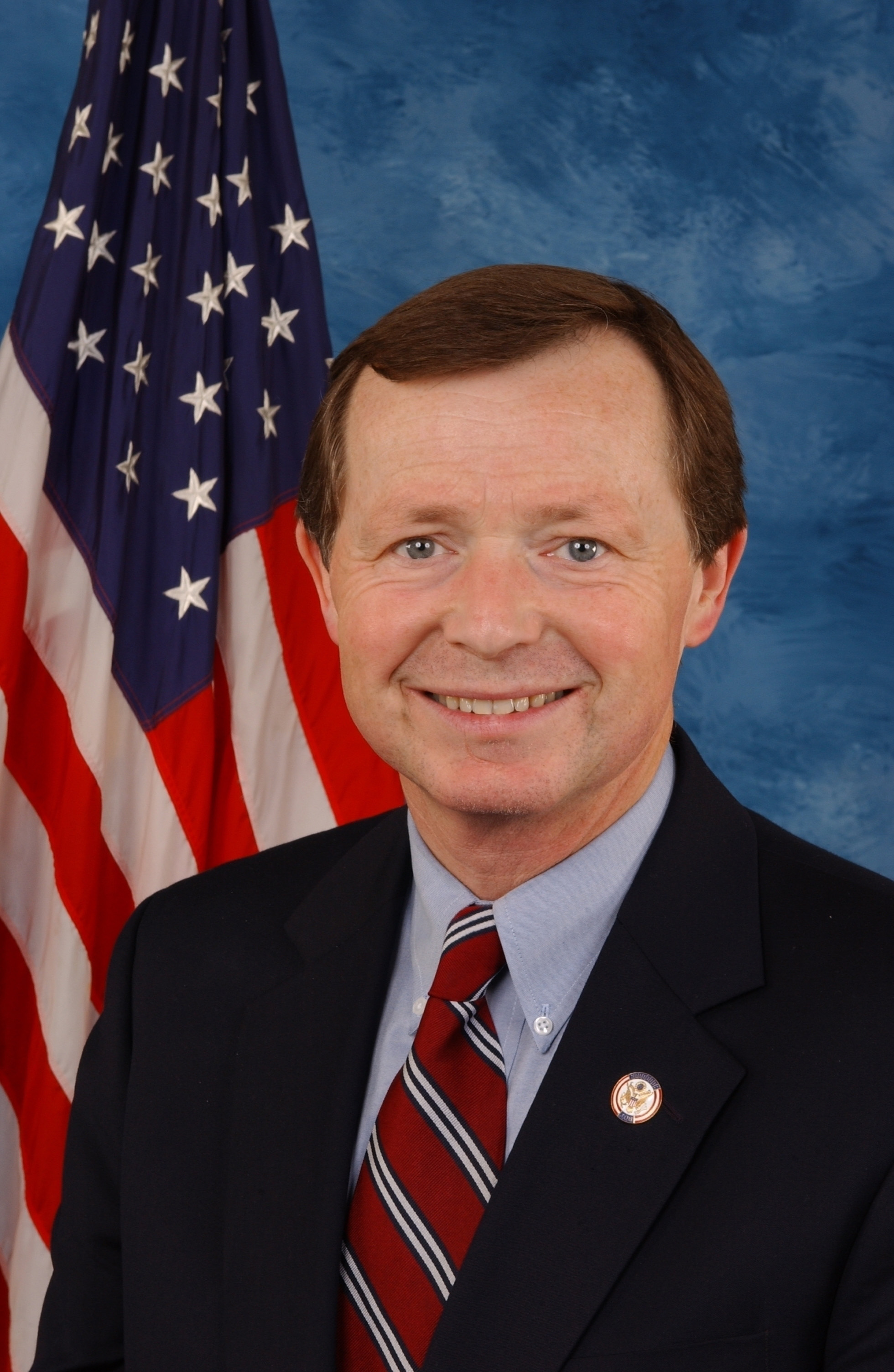 Earl Pomeroy, member of the United States House of Representatives.